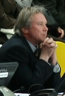 Sergei Ponomarenko as the assistant technical specialist at the 2011 World Figure Skating Championships